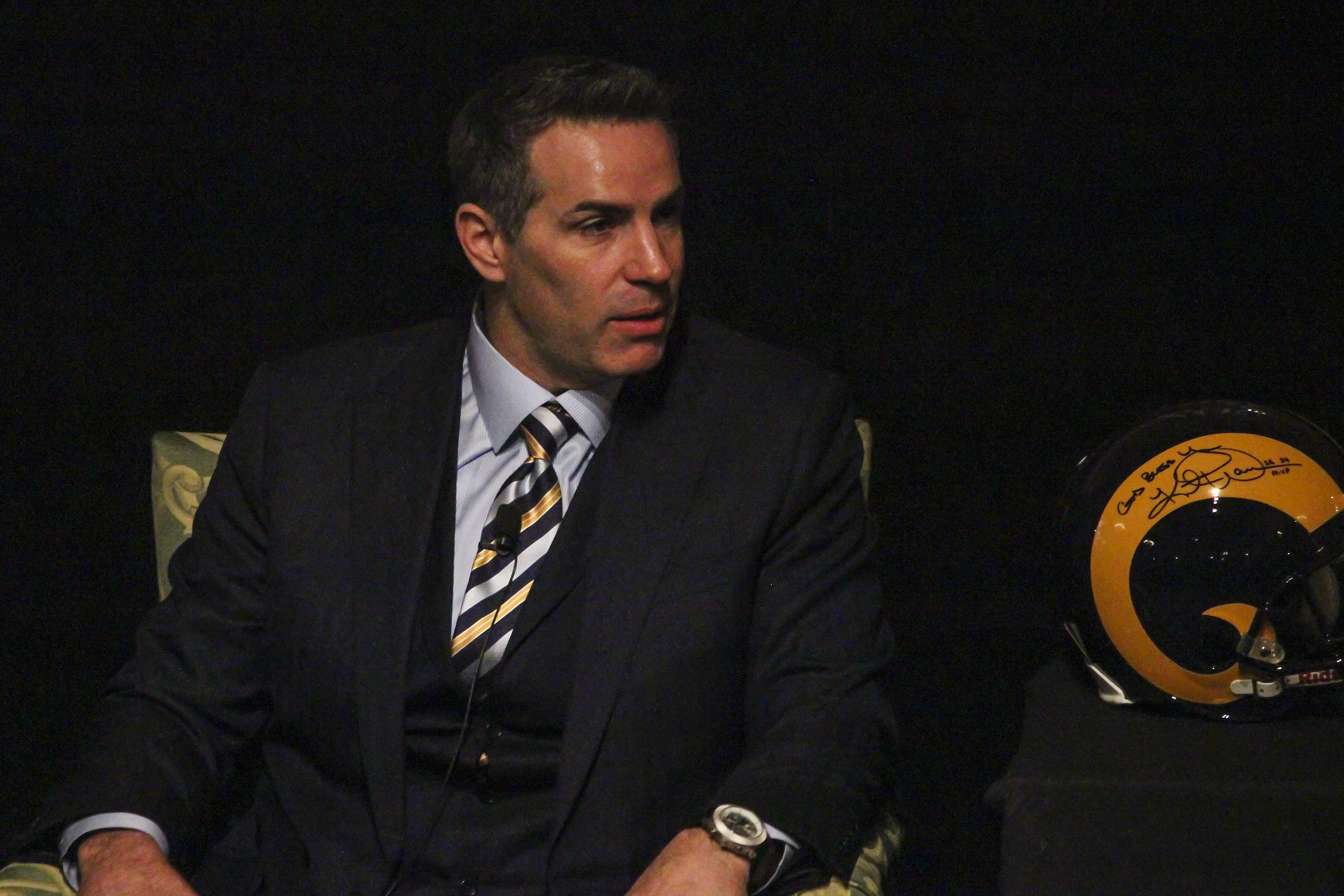 Kurt Warner inducted into the St.Louis Sports hall of fame.